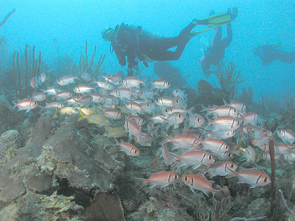 Diver and Blackbar Soldierfish, Salt River, St. Croix, Virgin Islands. Image taken by Clark Anderson/Aquaimages.